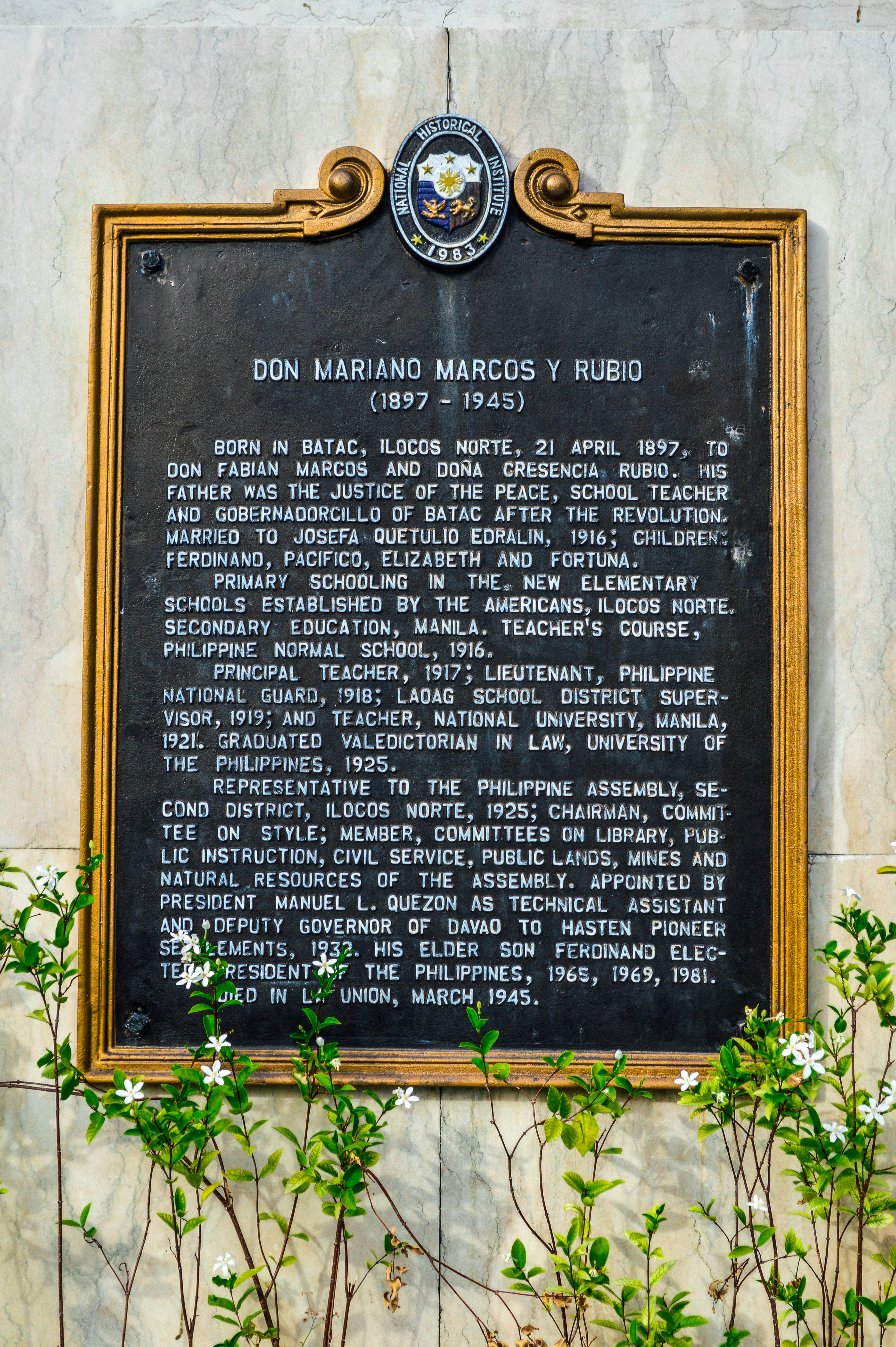 Historical Marker for Don Mariano Marcos y Rubio Batac, Ilocos Norte